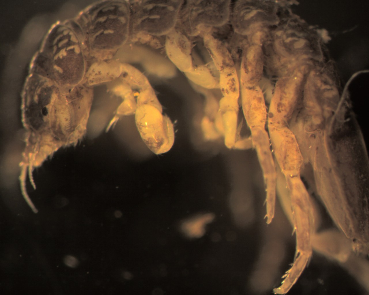 O: Isopoda F: Asellidae